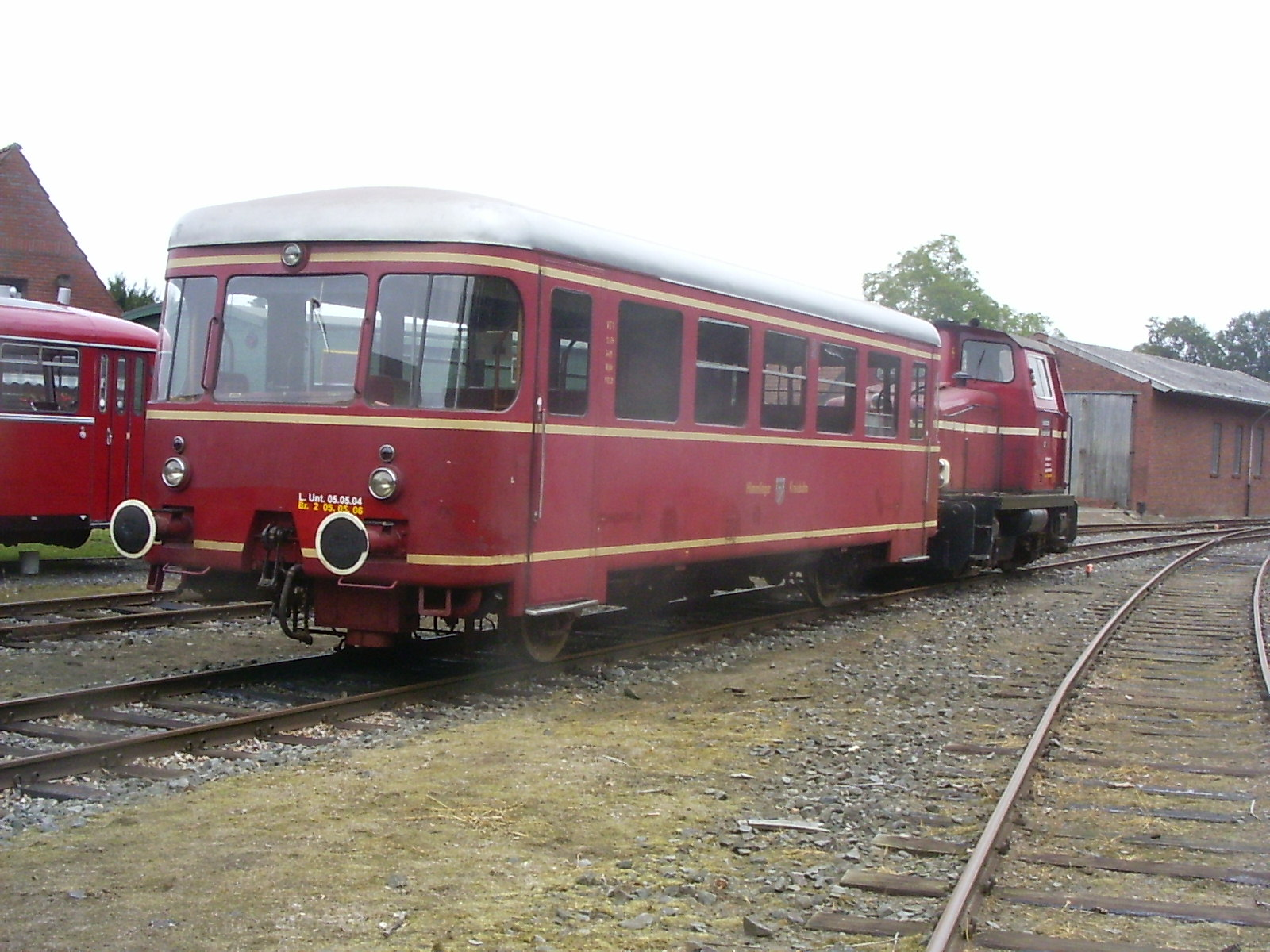 Werlte, railbus